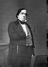 Lewis Cass